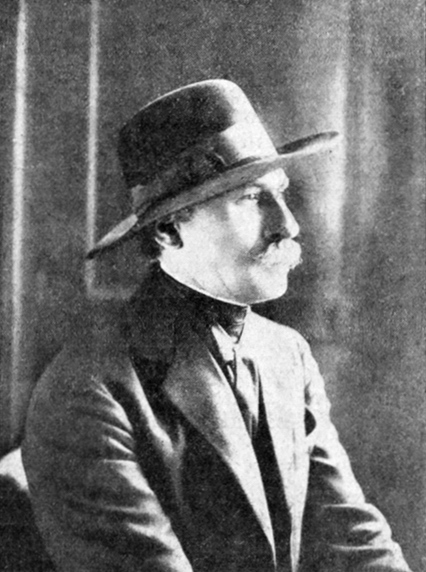 Paul Fort (1872-1960) was a French poet.